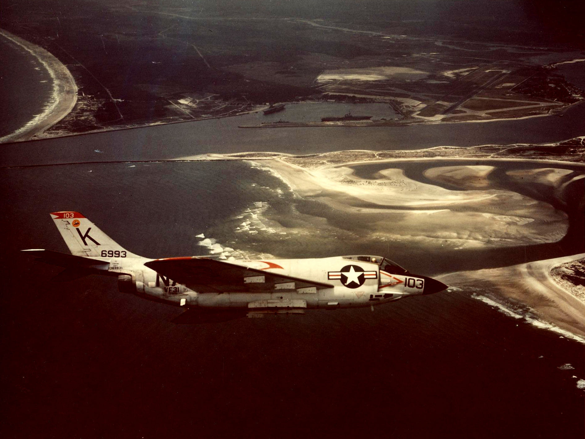 A U.S. Navy McDonnell F3H-2N Demon (BuNo 136993, pilot Lt(jg) Joseph S. Henriquez) of Fighter Squadron VF-31 "Tomcatters" in flight near Naval Station Mayport, Florida (USA). VF-31 was assigned to Carrier Air Group 3 (CVG-3) and was transitioning to the F3H. Note the carrier USS Franklin D. Roosevelt (CVA-42), right, and another carrier in port.